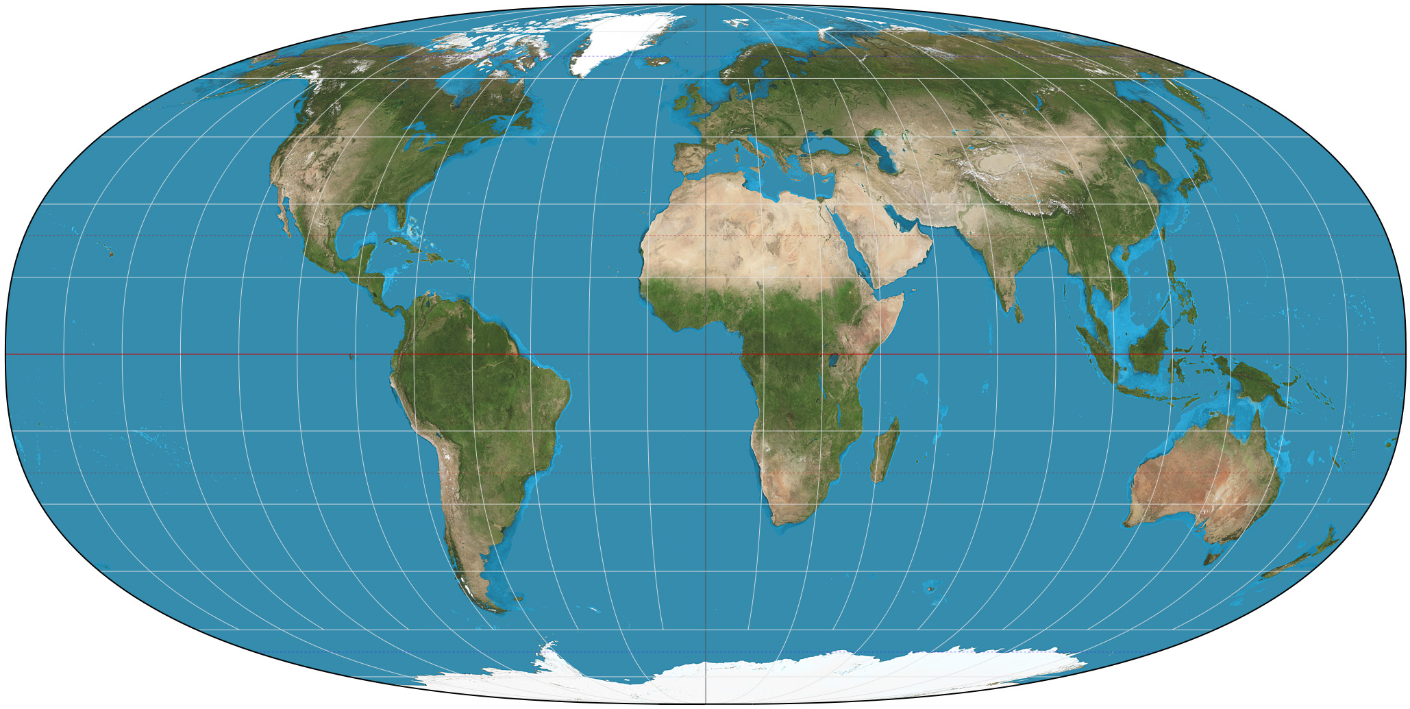 The world on Tobler hyperelliptical projection. 15° graticule; α = 0, γ = 1.18314; k = 2.5. Imagery is a derivative of NASA’s Blue Marble summer month composite with oceans lightened to enhance legibility and contrast. Image created with the Geocart map projection software.